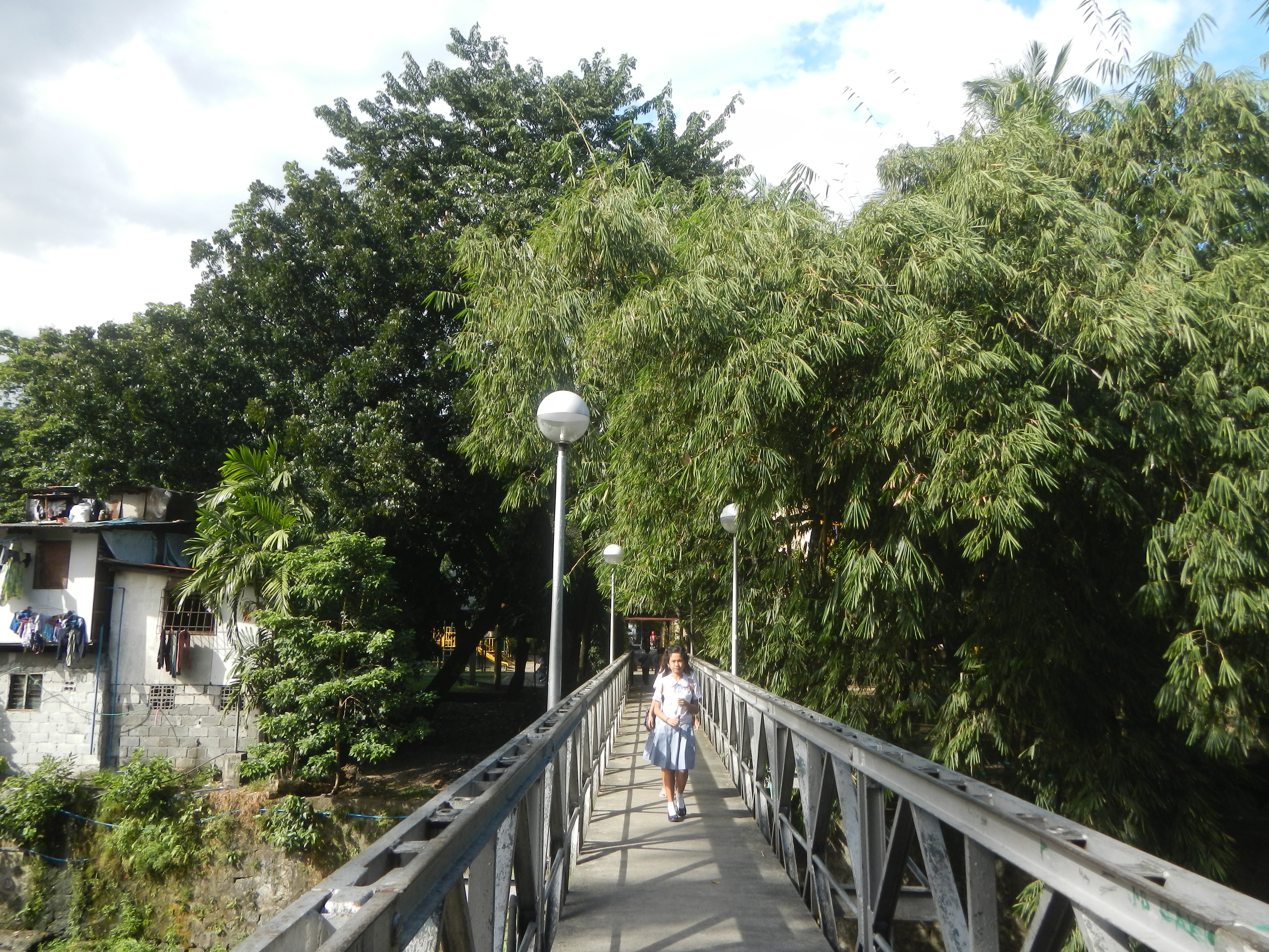 Ermin Garcia Street - Footbridge - Lagarian Bridge I, Lagarian Creek - Pinagkaisahan steel bridge, EDSA, Quezon City Ramon Magsaysay (Cubao) High School (RMCHS) in the List of barangays of Metro Manila Legislative districts of Quezon City Districts 3, Barangays of Quezon City, Barangay Pinagkaisahan 14°37'33"N 121°2'34"E along Ermin Garcia Street 14°37'47"N 121°3'15"E corner Denver Street District IV, Cubao, Quezon City upon the List of rivers and estuaries in Metro Manila San Juan River (Metro Manila) Estuaries in Cubao, Quezon City along Aurora Boulevard (Note: Judge Florentino Floro, the owner, to repeat, Donor Florentino Floro of all these photos hereby donate gratuitously, freely and unconditionally all these photos to and for Wikimedia Commons, exclusively, for public use of the public domain, and again without any condition whatsoever).